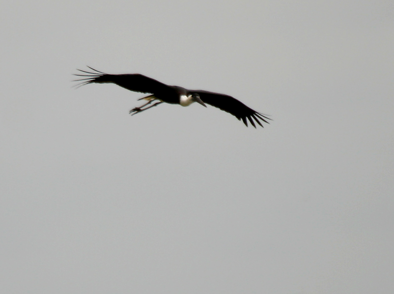 Woolly-necked Stork Ciconia episcopus- Hindi: Haji laq laq, Sans: Shwetakanth mahabak, Pun: Dhing, Ben: Manik jor, Ass: Kanua, Guj: Kali tul, Dholidok dhonk, Mar: Bagula, Kardok, Kandesur, Kowrow, Pandhrya manecha karkocha, Ta: Vannathi naarai, Mal: Karim kokku, Sinh: Padili kokka- at Pocharam lake, Andhra Pradesh, India.